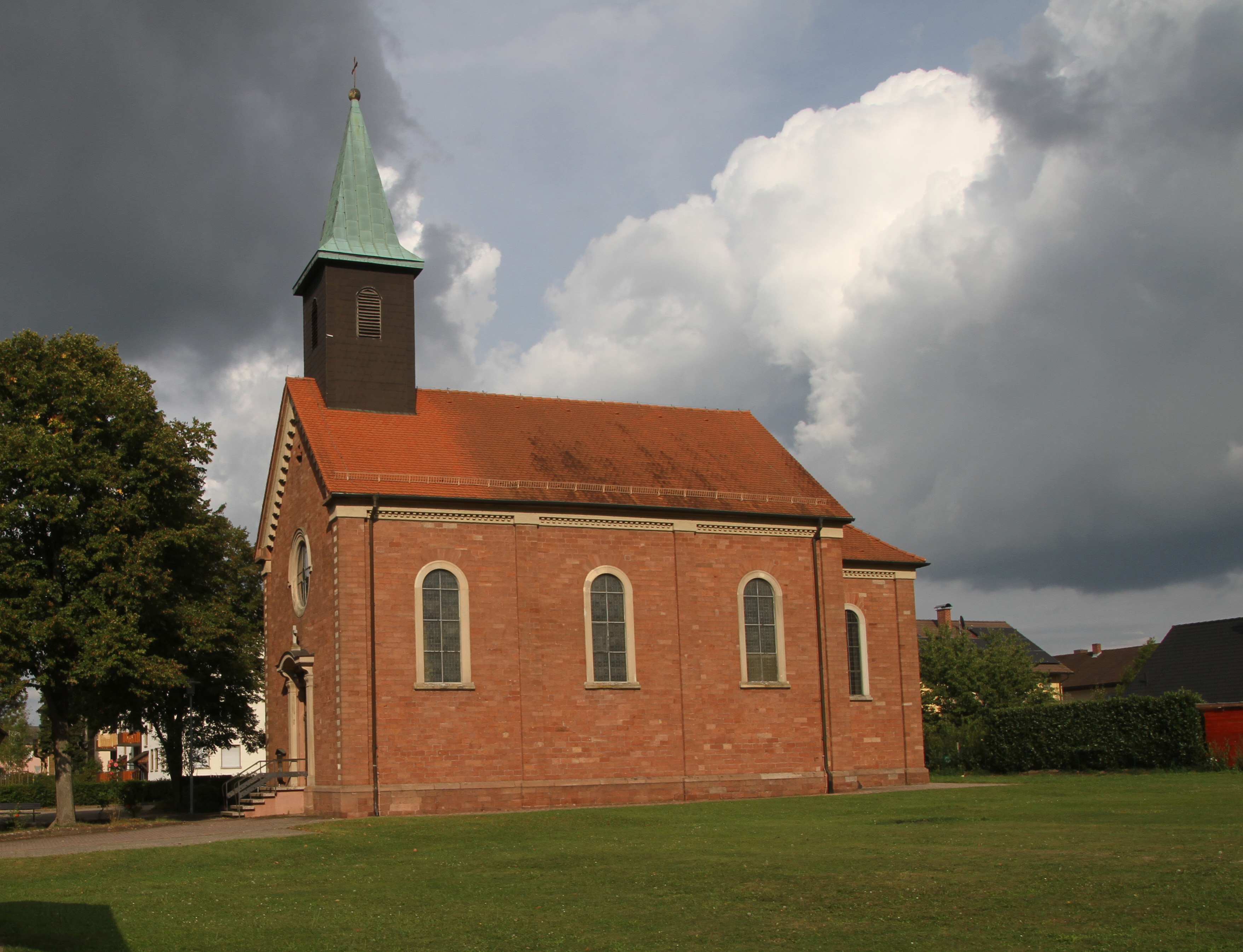 Church of St. Johannes der Täufer in Rheinau-Rheinbischofsheim.